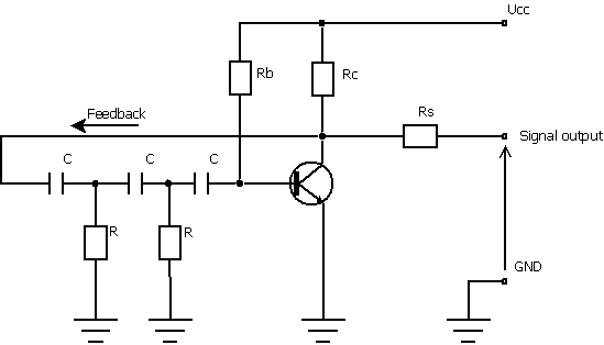 Circuit Diagram for RC-Phase Shift Oscillator using NPN transistor in the constant base current bias.